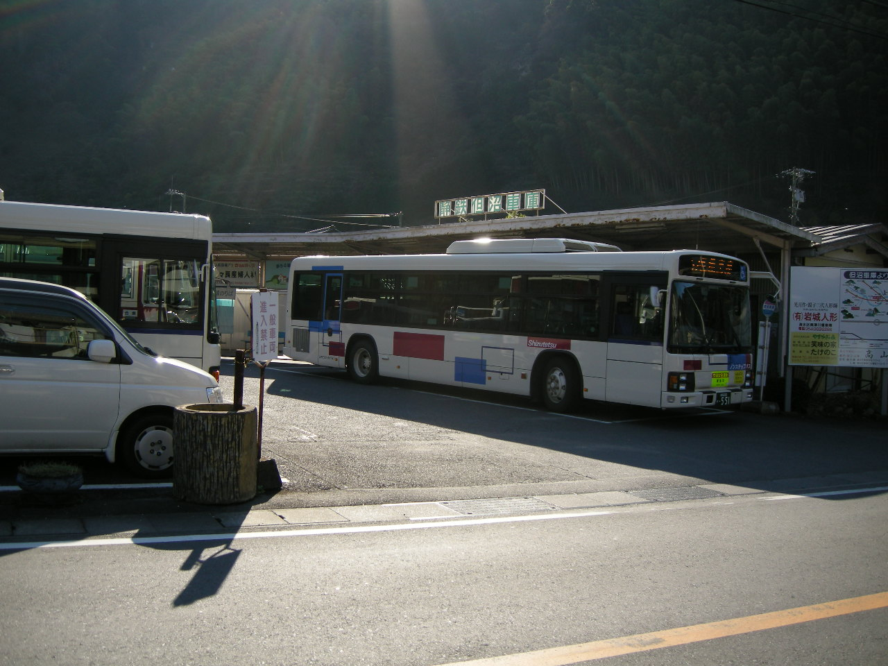 Shizutetsu Justline Nishikubo Depot, Tadanuma Branch